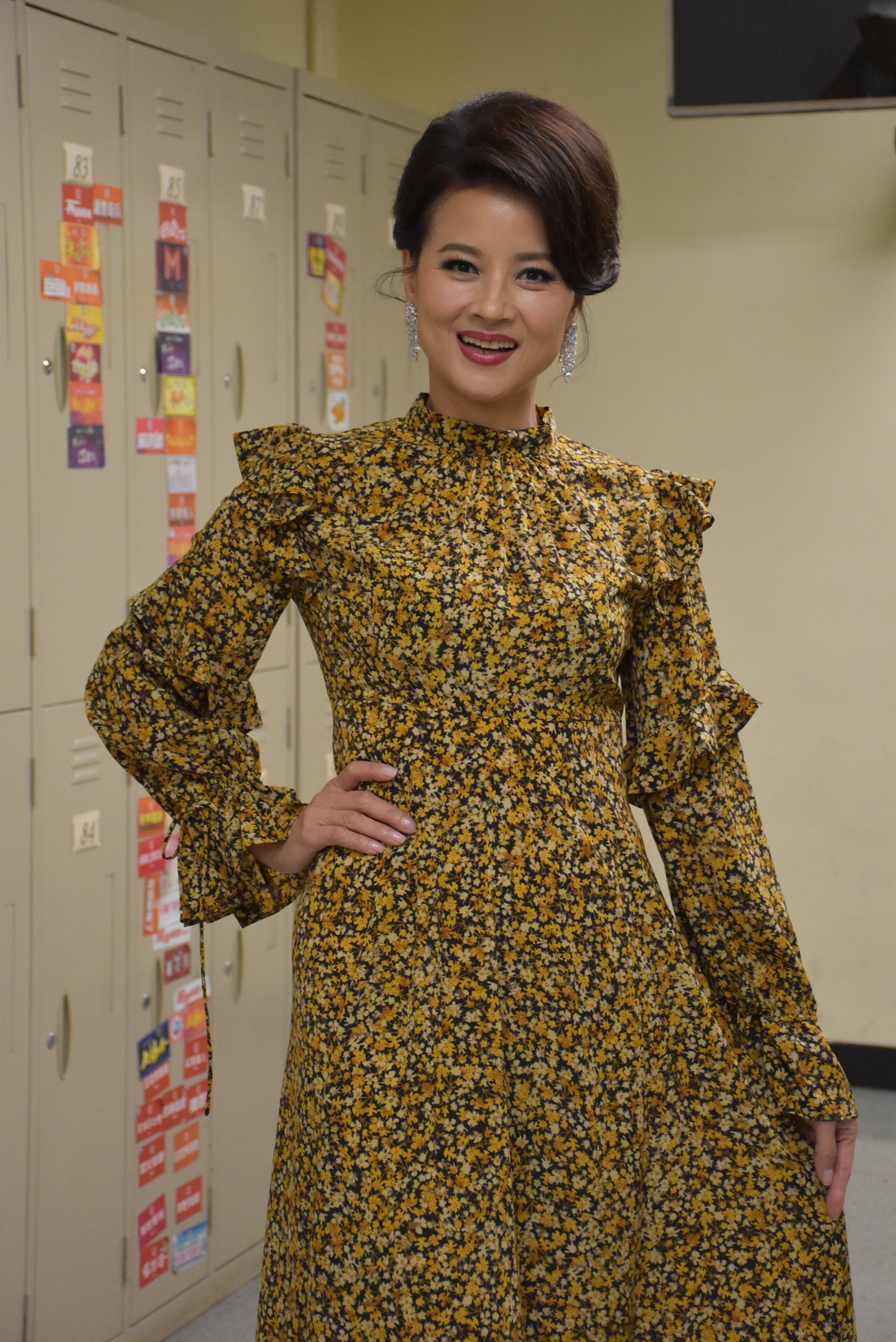 黎燕珊在電視城演出